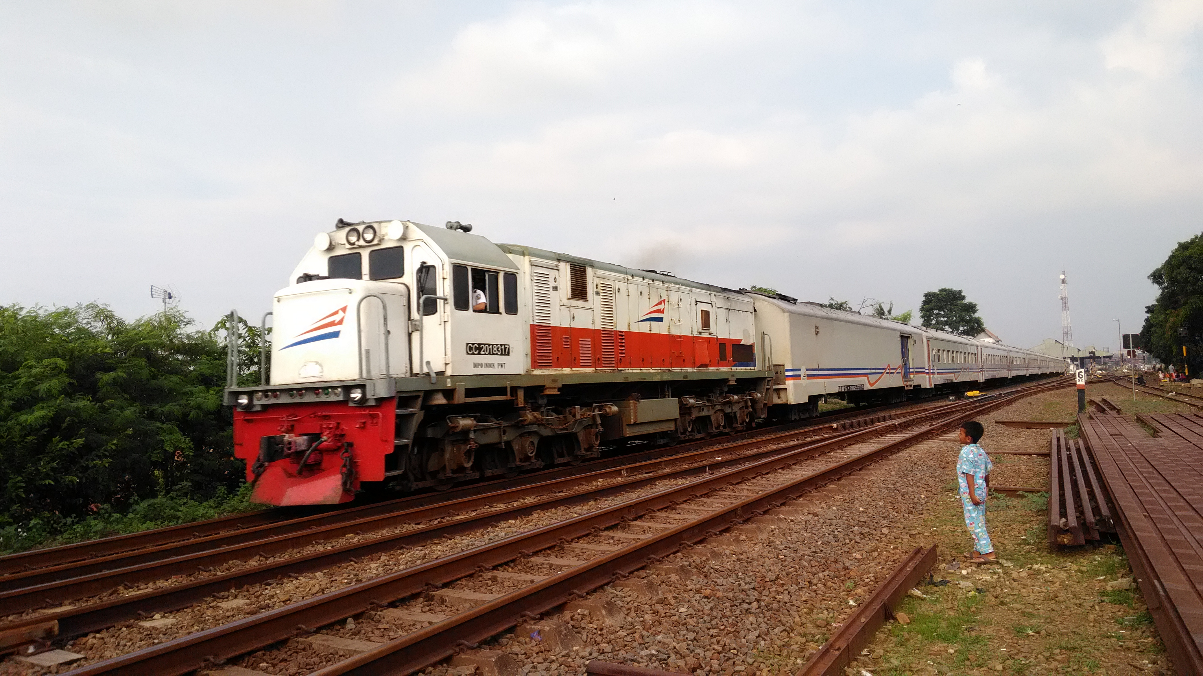 Bogowonto Train crossing Cikampek Railway Station